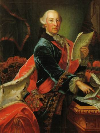 Portrait of Charles Eugene, Duke of Württemberg (1728-1793)